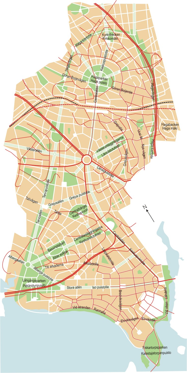 A simplified sketch of Eliel Saarinen's 1915 Munksnäs-Haga plan compared with Helsinki's street network in 2008 (in red)